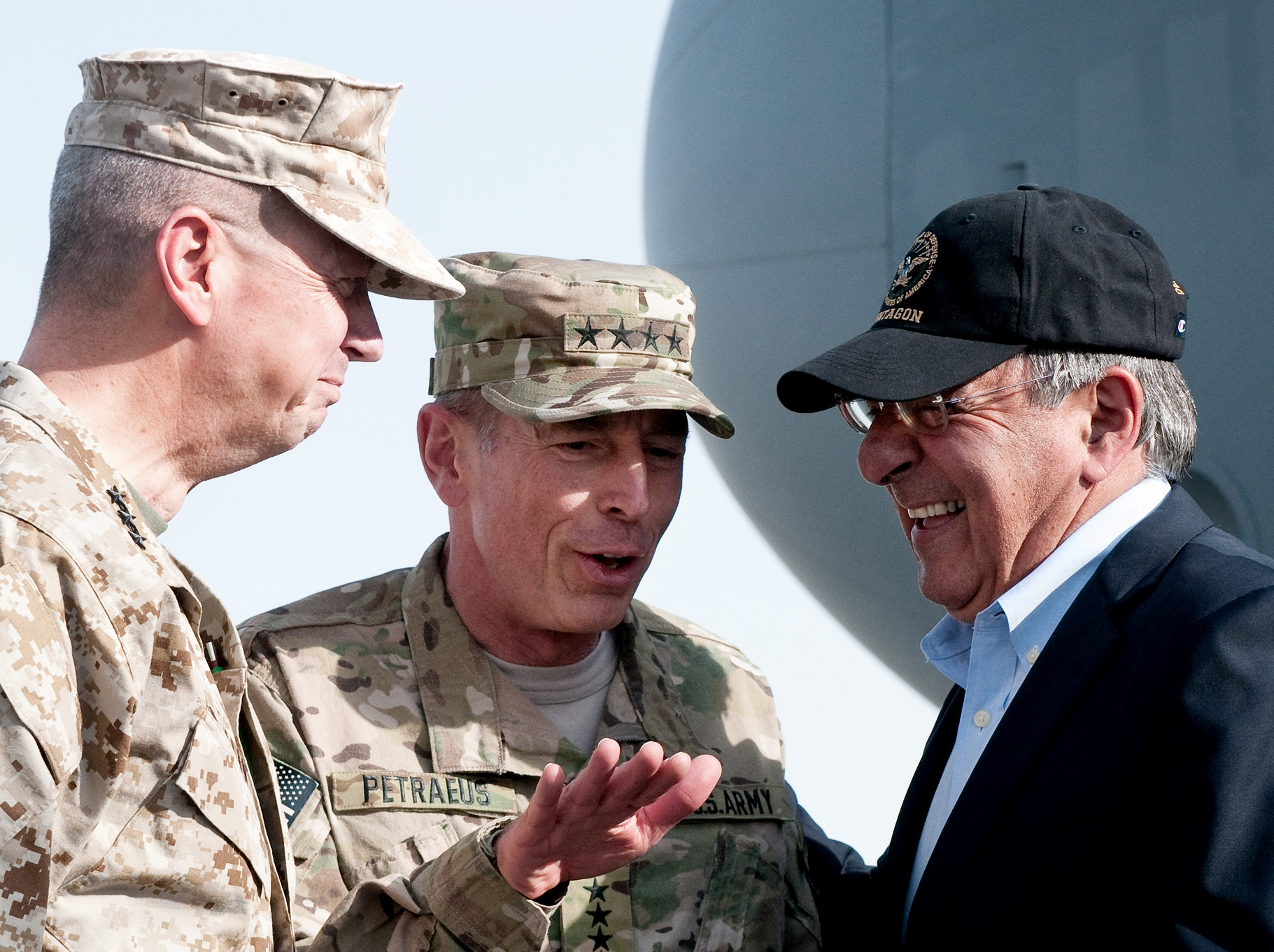 General John R. Allen, incoming commander, International Security Assistance Force (ISAF)/U.S. Forces- Afghanistan (USFOR-A) and General David H. Petraeus, commander, ISAF/USFOR-A, greet Leon Panetta, U.S. Secretary of Defense, upon his arrival to Afghanistan at Bagram Airfield.